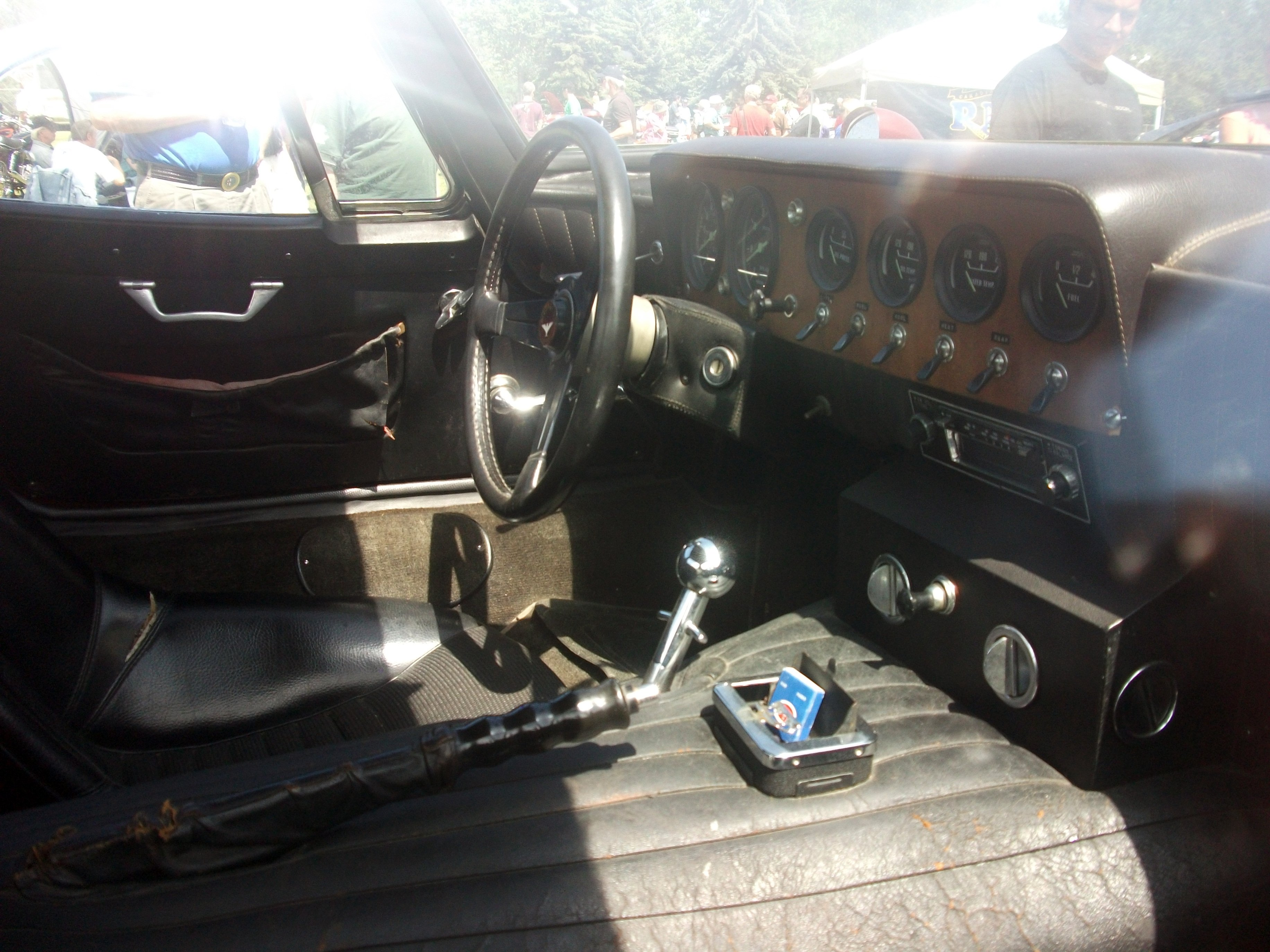 Apologies for the poor shot but it was the best I could get of the interior. I love that row of switches. This 1967 Bizzarrini Gt America is a newly a acquired project car for one of the club members. It had just been trailer-ed up from California which explains the tape over the headlight covers. He planned to get it drivable and mechanically solid but not do a full restoration. Powered by a 327cid Chevrolet V8.